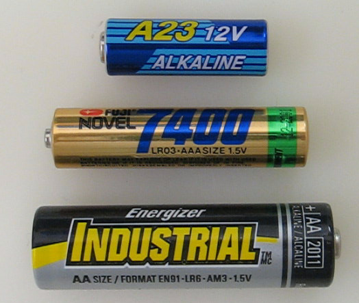 An A23 battery, alongside AA and AAA batteries for size comparison.